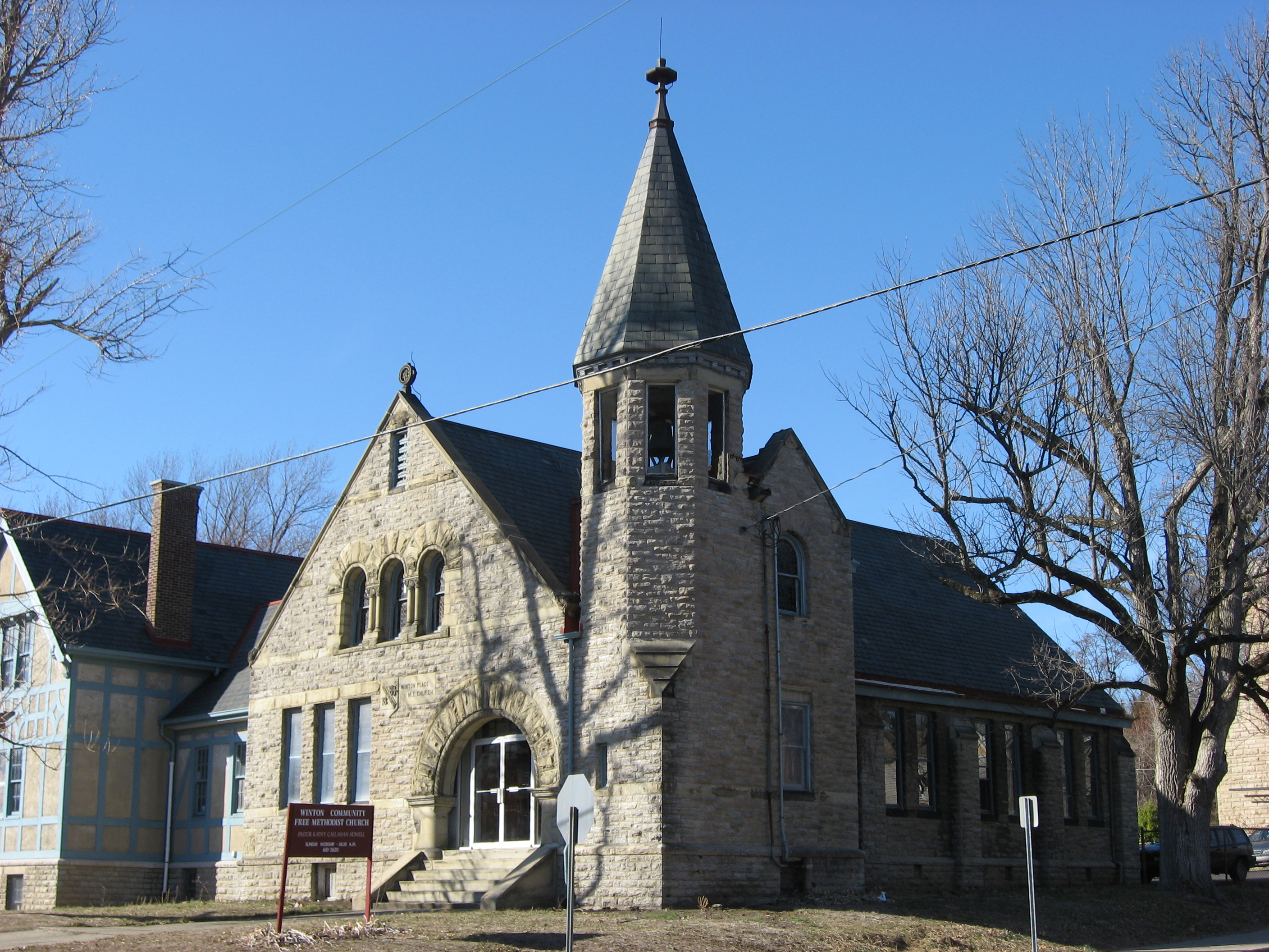 Front and eastern side of the Winton Place Methodist Episcopal Church, located at 700 E. Epworth Avenue in the Spring Grove Village neighborhood of Cincinnati, Ohio, United States. Built in 1884, it is listed on the National Register of Historic Places.